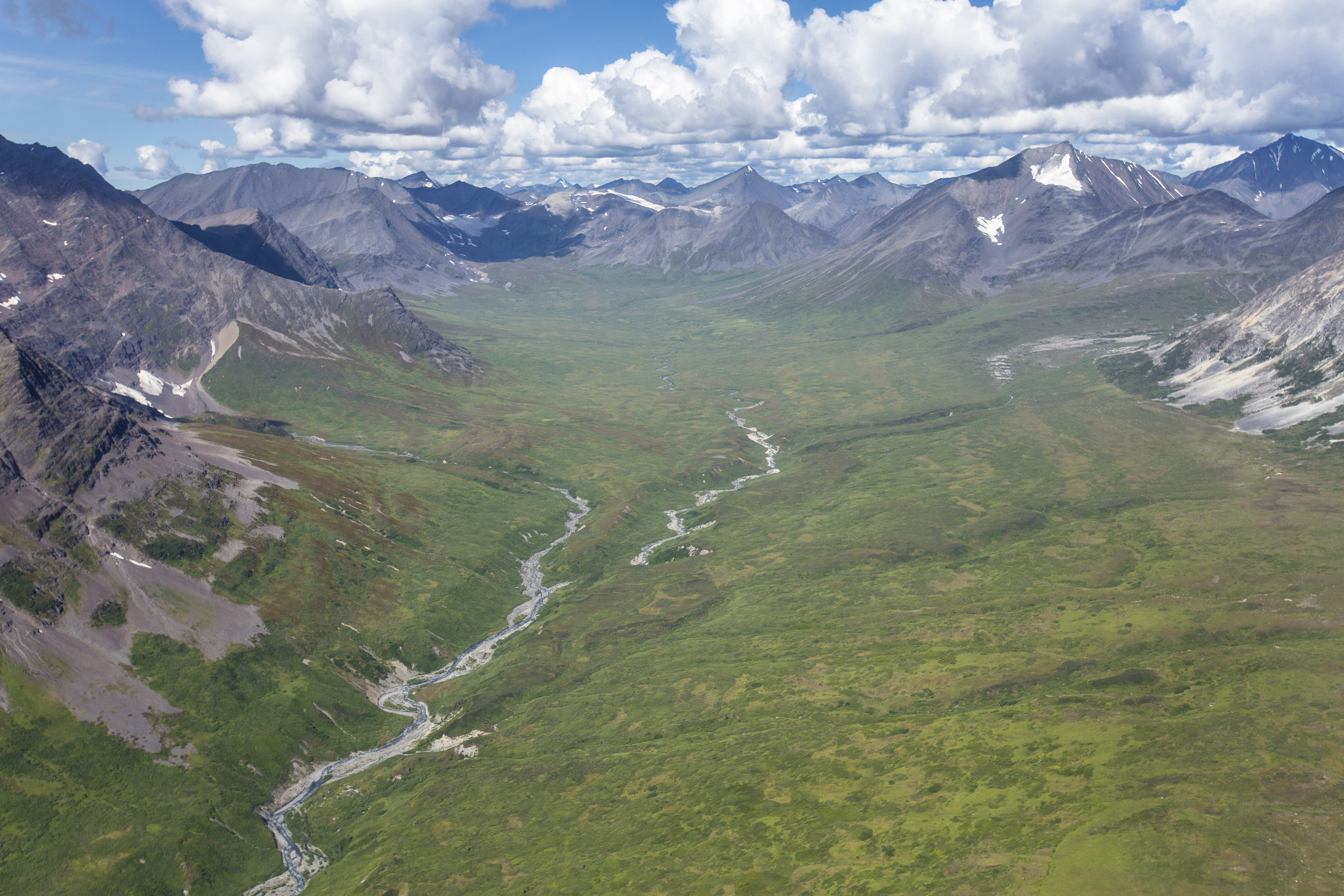 NPS / Jacob W. Frank Flight paths